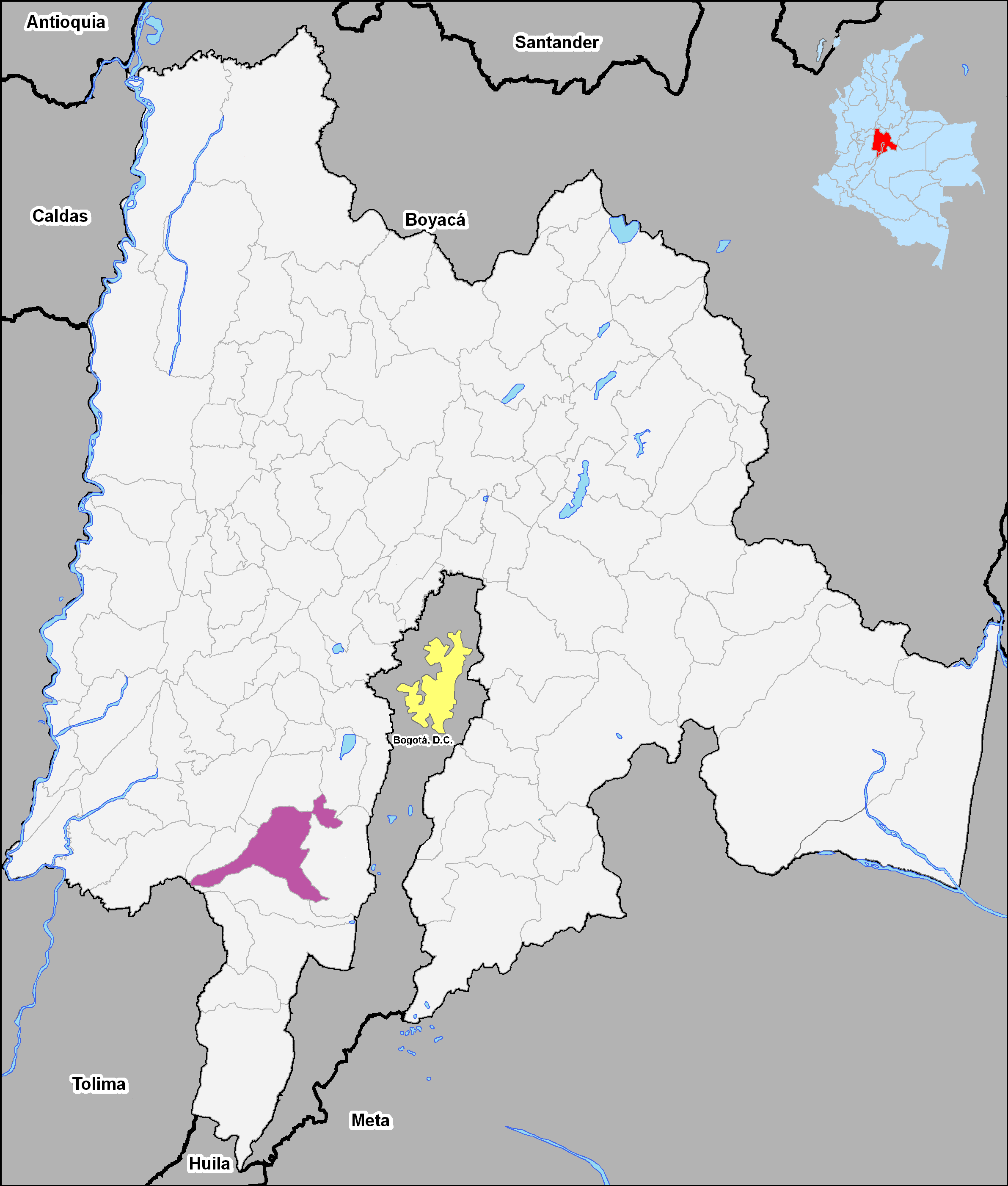 Map of Cundinamarca with the municipality of Fusagasugá highlighted to denote its location.